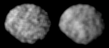 These Voyager 2 images of satellite Larissa at a resolution of 4.2 kilometers (2.6 miles) per pixel reveal it to be and irregularly shaped, dark object. The satellite appears to have several craters 30 to 50 kilometers (18.5 to 31 miles) across. The irregular outline suggests that this moon has remained cold and rigid throughout much of its history. It is about 210 by 190 kilometers (130 by 118 miles), about half the size of Proteus. It has a low albedo surface reflecting about 5 percent of the incident light. The Voyager Mission is conducted by JPL for NASA's Office of Space Science and Applications.